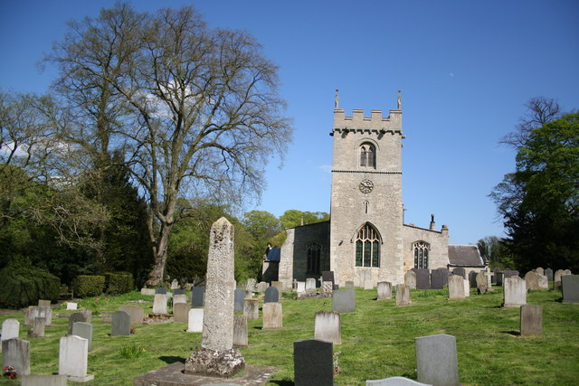 St.Andrew & St.Mary's church, Stoke Rochford, Lincs. Deceptively spacious and surprisingly full of interest. Much 11th & 12th century work in the tower and arcades, wrapped in a Perpendicular church.